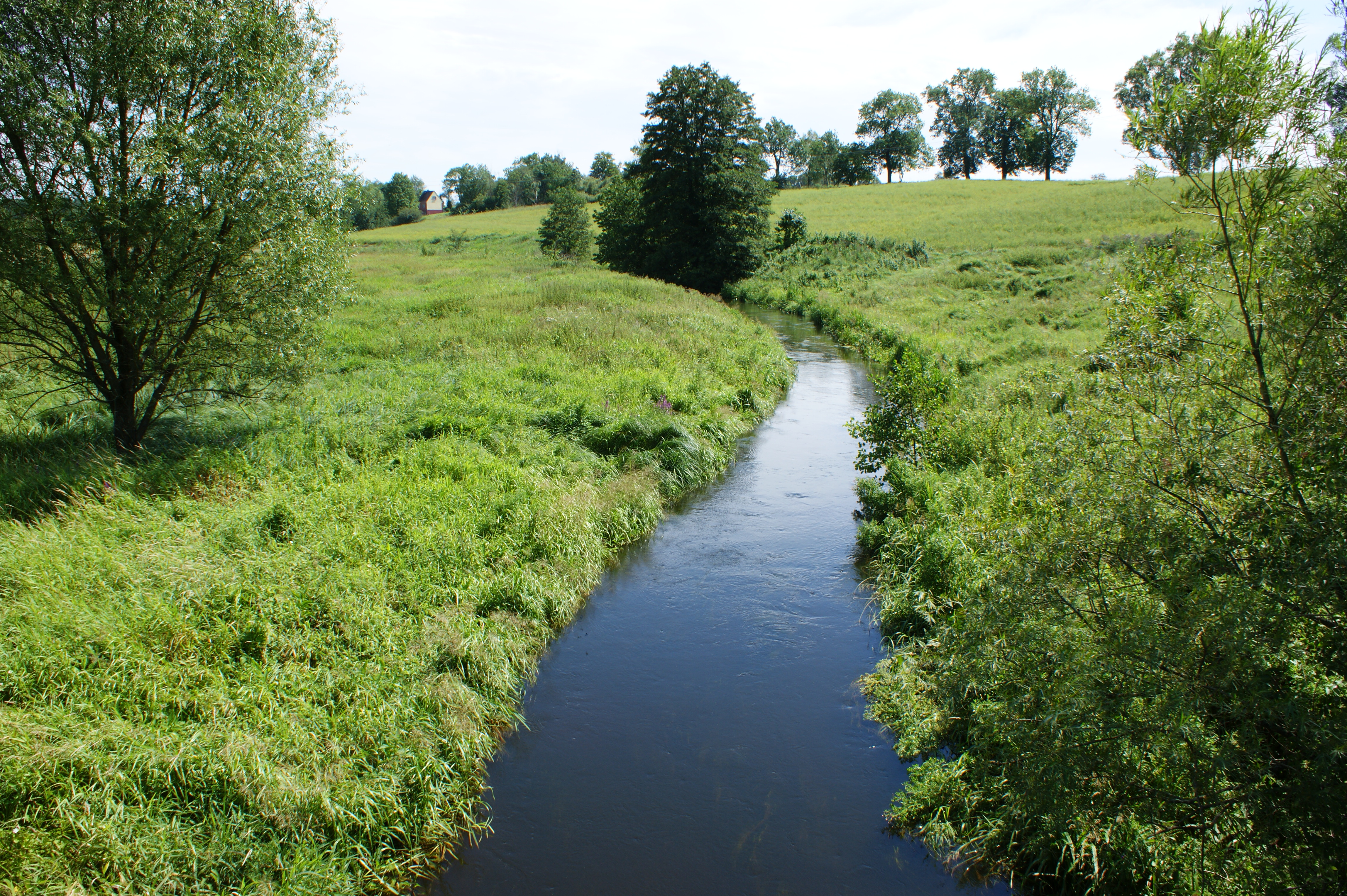 Drawa river West from bridge between Darskowo and Rzęśnica (Złocieniec commune, NW Poland)